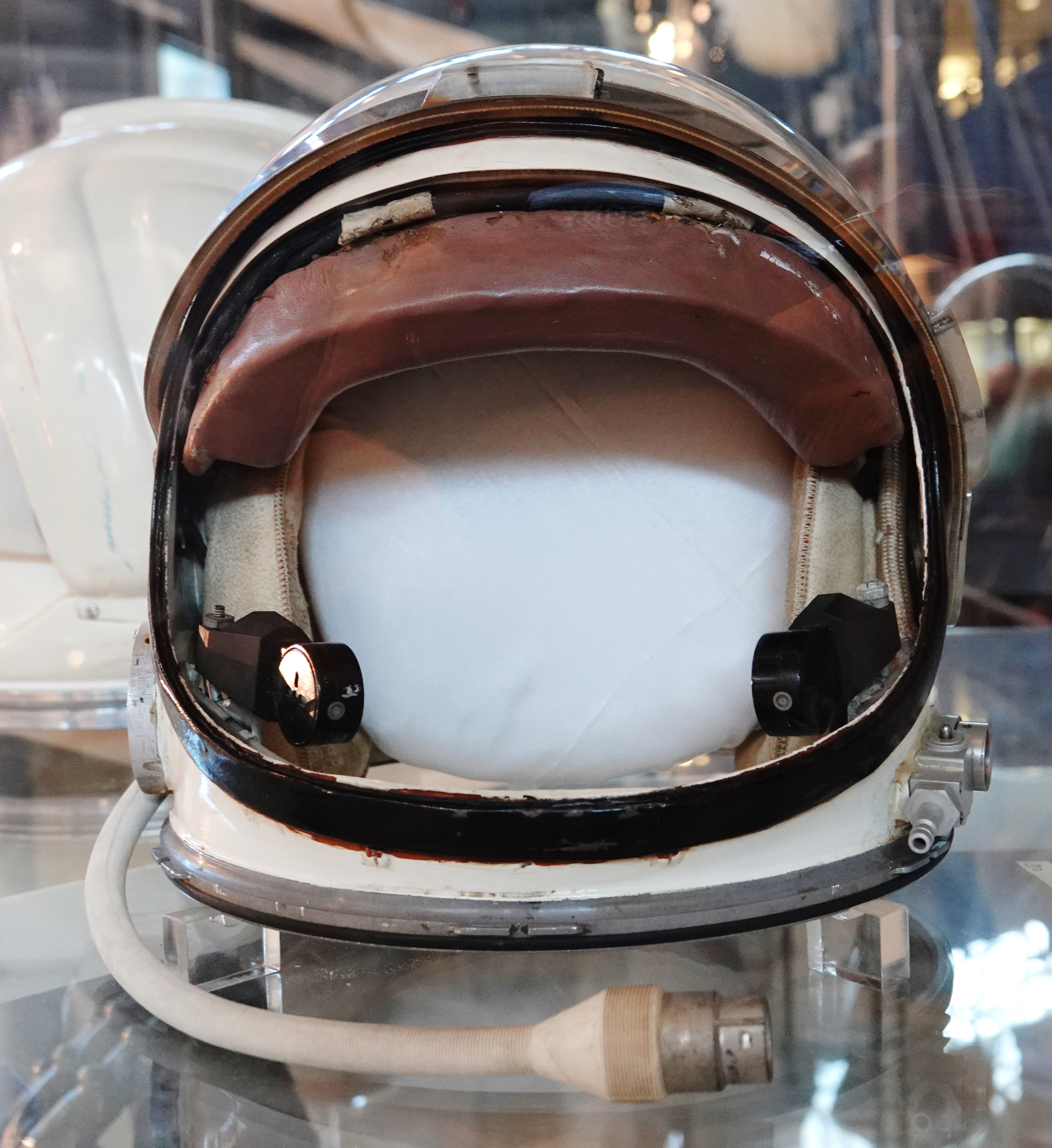 Gordon Cooper used this helmet while training for his Mercury 9 mission aboard Faith 7 in 1962. Modeled to ﬁt Cooper’s head, the helmet is made of a white fiberglass composite and has a leather comfort pad inside, suede-covered earphones, and an interior microphone for hands-free communication. Picture taken at the National Air and Space Museum's Steven F. Udvar-Hazy Center in Chantilly, Virginia, USA.